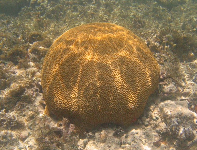 Brain coral, Caribbean Sea, Goat Bay (Bahía de la Chiva), Island of Vieques, Puerto Rico